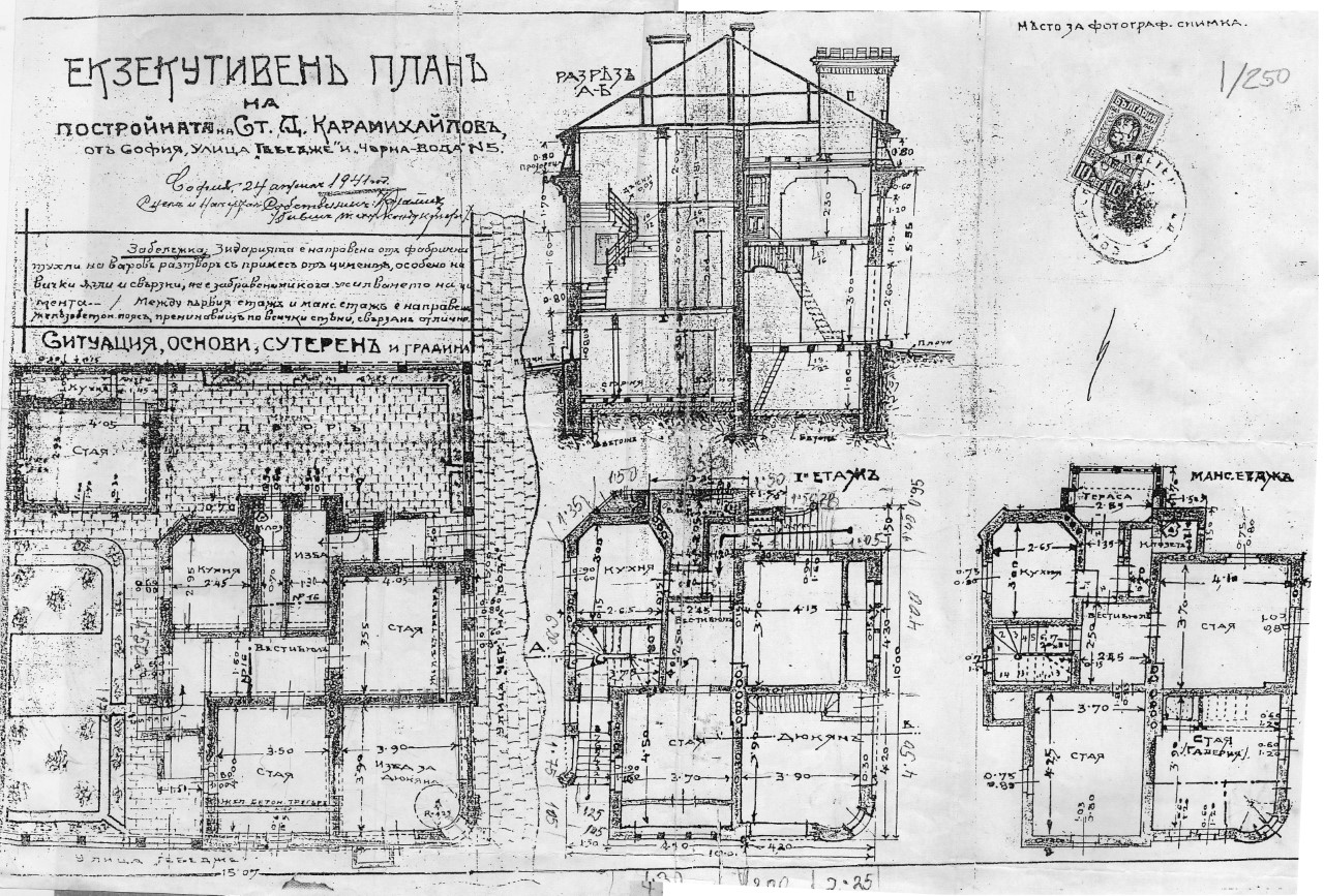 The House with the Tower in Sofia